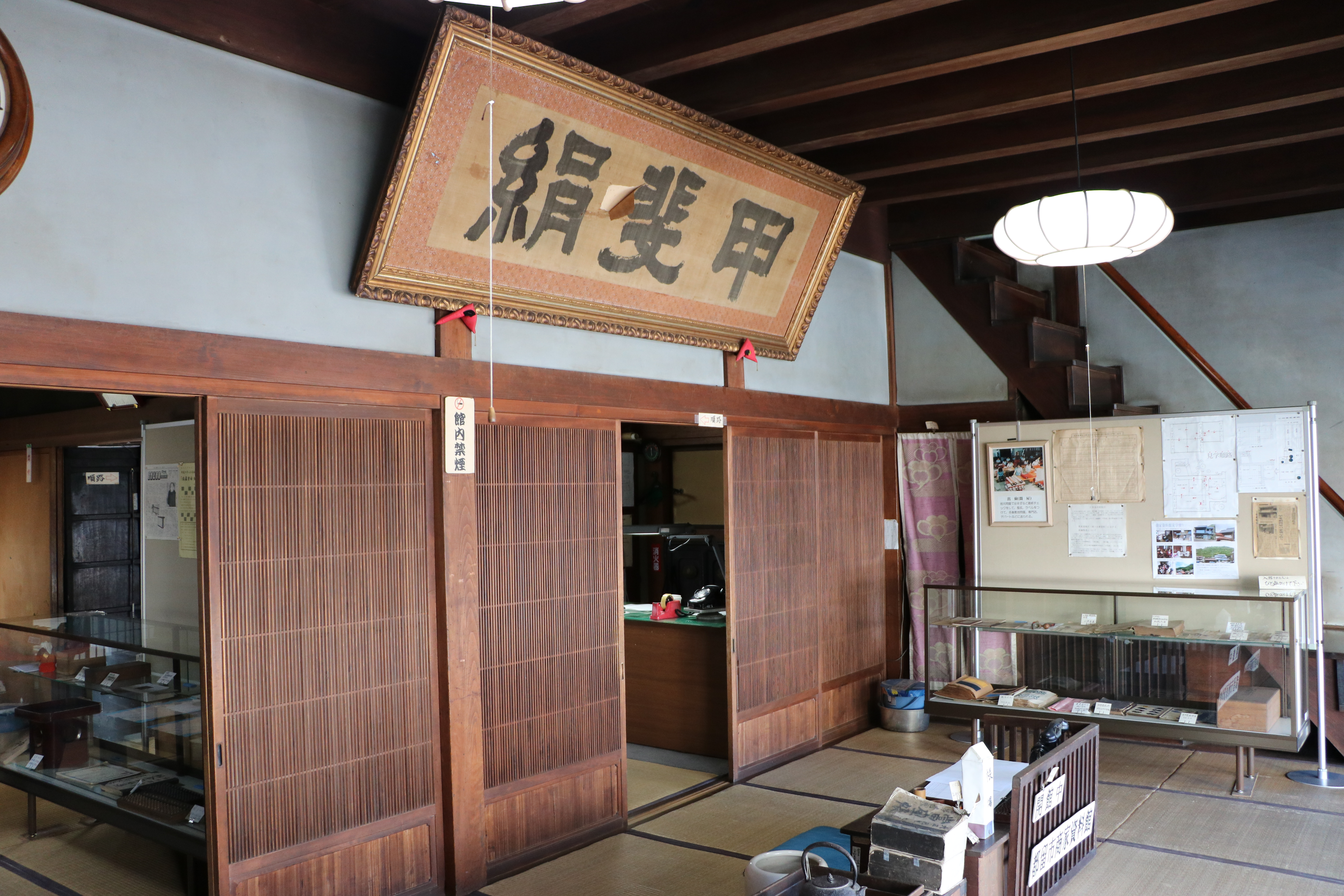 Tsuru City merchant museum.Reception counter of the liquidation transactions.